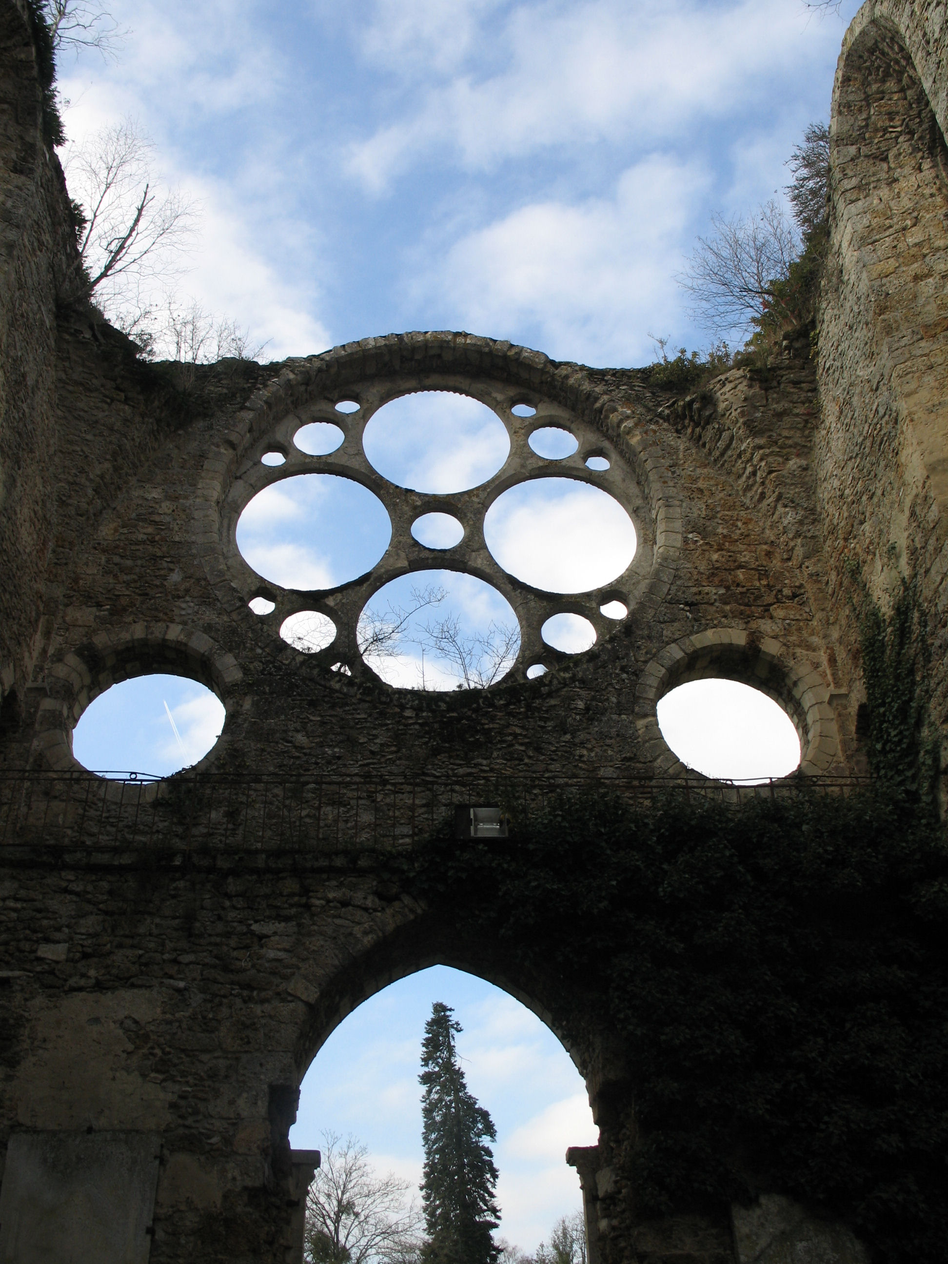 Vaux-de-Cernay Abbey was a Cistercian monastery in northern France (Ile-de-France), situated in the Diocese of Versailles, Seine-et-Oise. In 1118 Simon de Neauffle and his wife Eve donated the land for this foundation to the monks of Savigny Abbey, in order to have a monastery built there in honour of the Mother of God and St. John Baptist. Vital, Abbot of Savigny accepted their offer, and sent a band of monks under the direction of Arnaud, who became their first abbot. Besides their first benefactors, others of the nobility came to the aid of the new community.